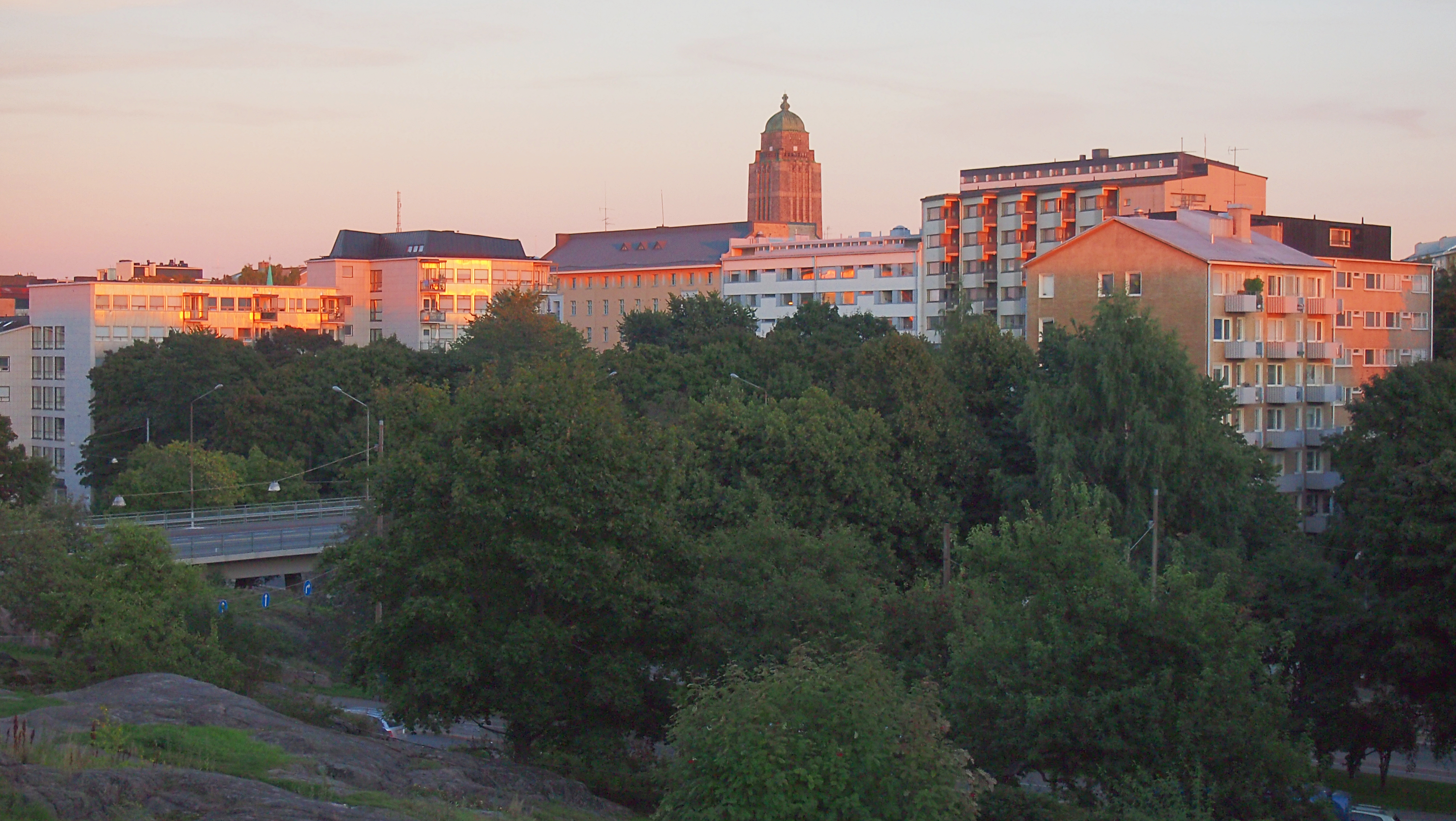 Alppikatu in Kallio, Helsinki, Finland as seen from the hills of Linnanmäki. Sunset, early Fall 2013.